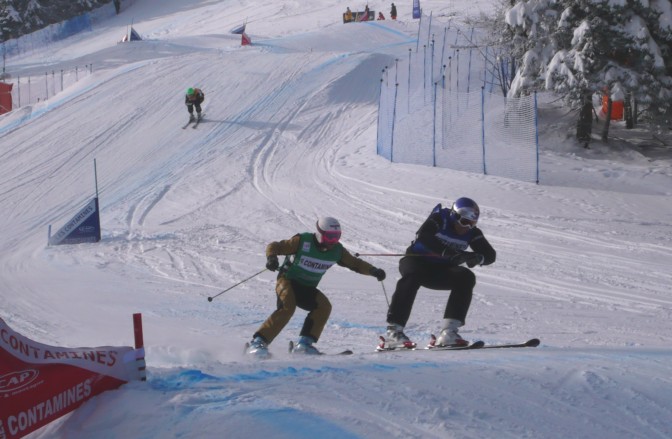 Ski Cross World Cup at Les Contamines-Montjoie, semi final : Tomáš Kraus, Xavier Kuhn, Beni Hofer.